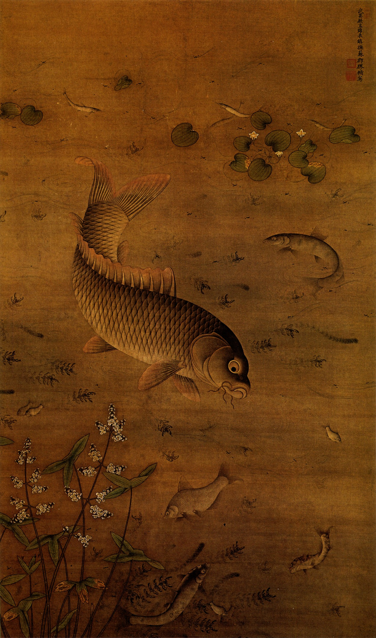 Fish and Aquatic Grass, hanging scroll, color on thin silk, 171.3 x 99.1 cm. Located at the Palace Museum.